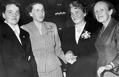 Four Swedish social democrats at the Swedish Social Democratic Women’s Federation’s Congress in 1956 (L-R): Maja Levin - Ulla Lindström - Brita Åkerman - Edith Malmberg